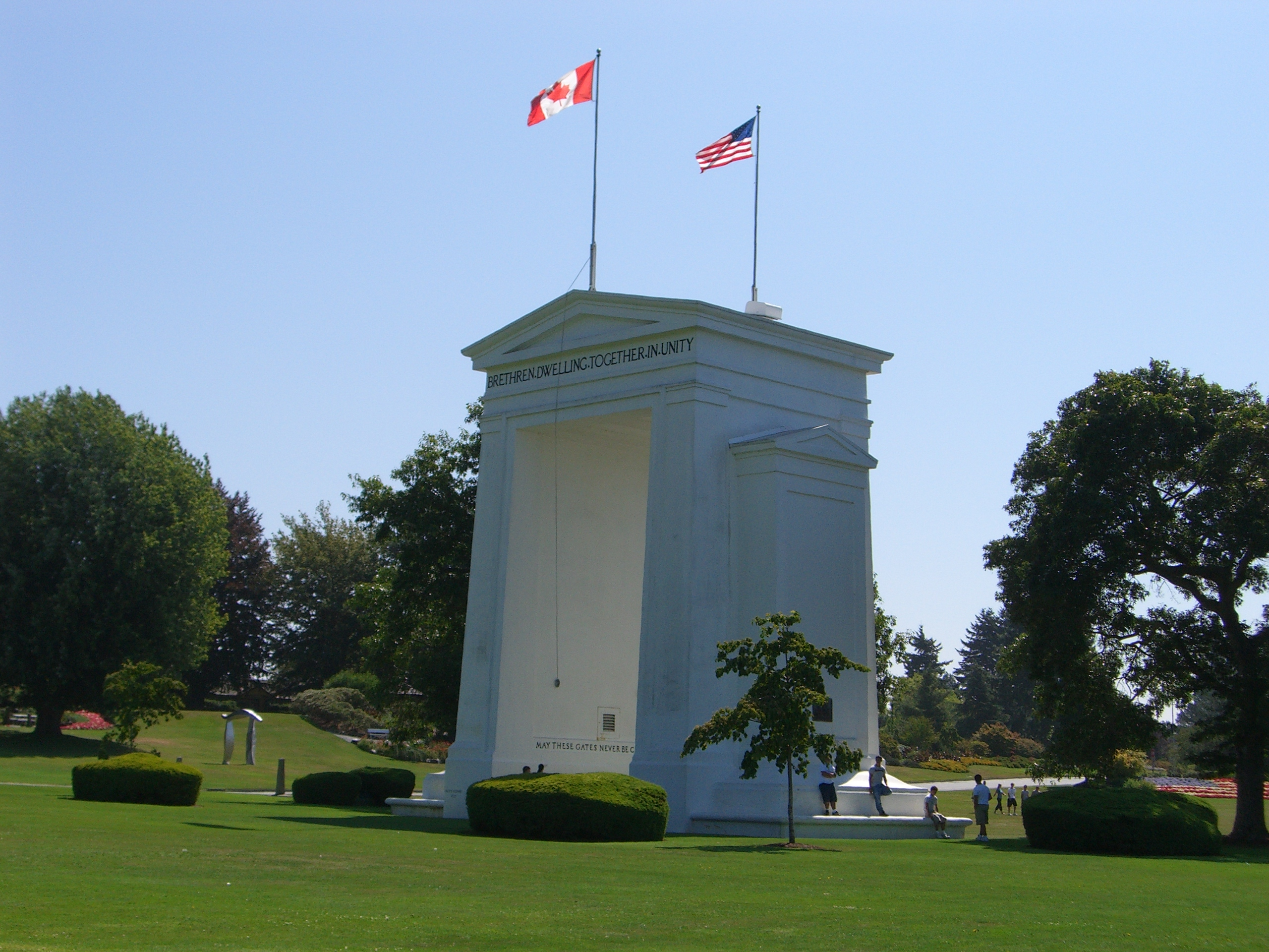 Peace Arch, Canada/US border. A picture taken by me.